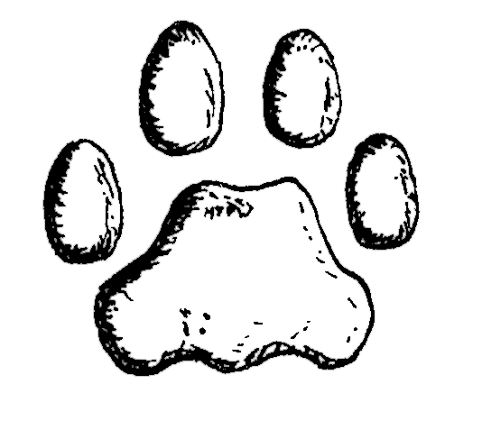 Paw of a puma